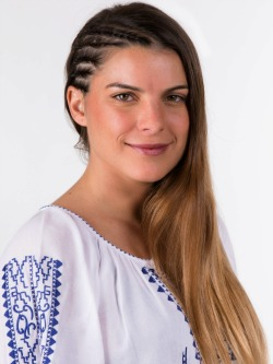 Maite Orsini Pascal en la fotografía oficial de diputados periodo 2018-2022. (Fotos: Christel Andler, René Lescornez, Johanna Zárate)